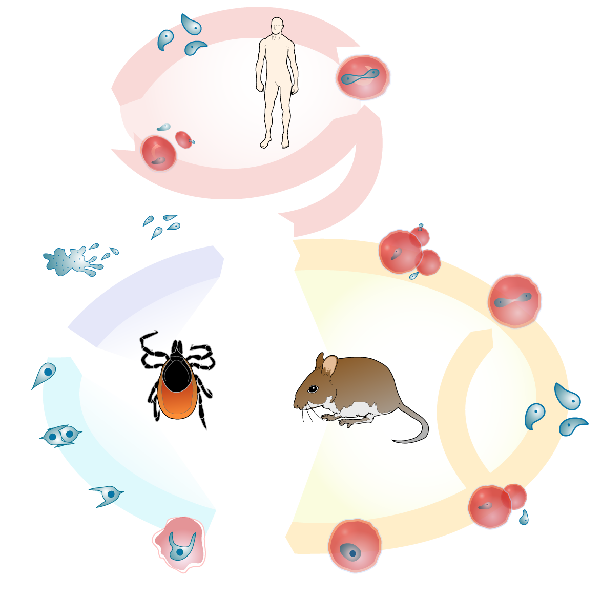 PNG without text from: Image:Babesia life cycle human en.svgLife cycle of the Parasite Babesia, (B.microti or B.divergens) including the infection to humans.